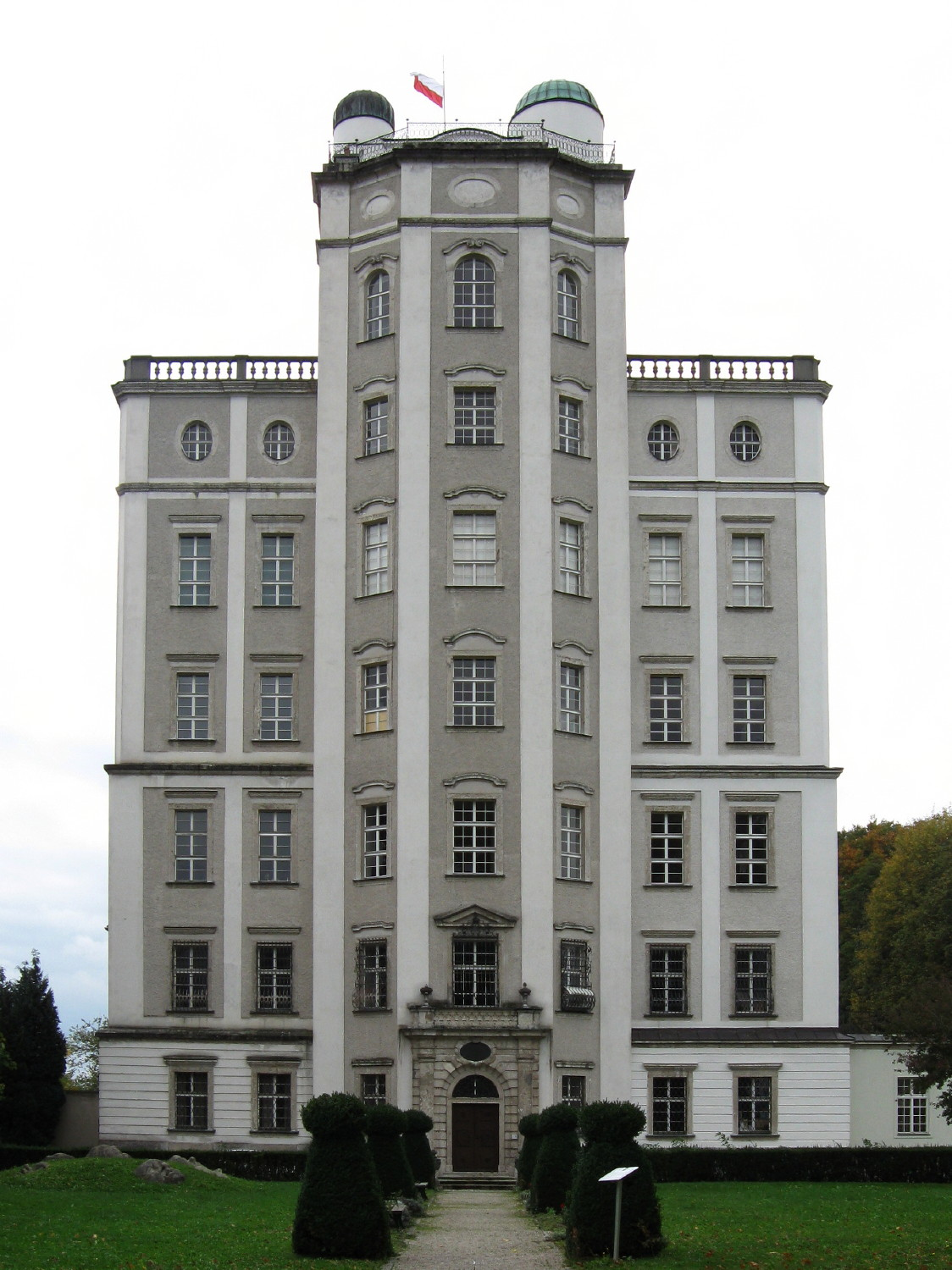 The „Mathematical tower“ of the Kremsmünster Abbey in Upper Austria. The tower was erected in the years 1749 to 1758. Two domes of the astronomical observatory are visible on the top of the building.